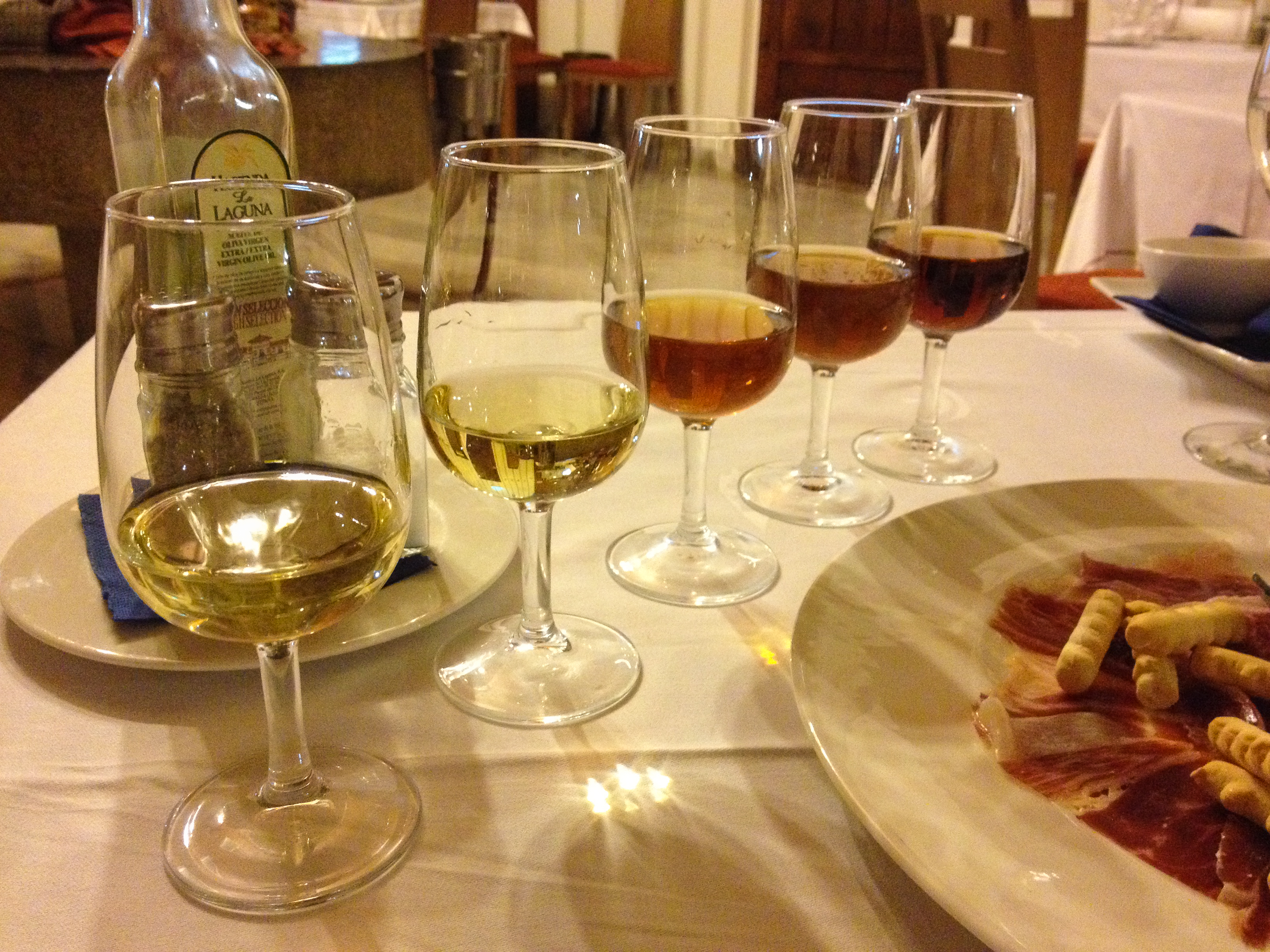 From left to right: Manzanilla "Papirusa" from Emilio Lustau Fino "Pavon" from Luis Caballero Amontillado "Principe" from Antonio Barbadillo Palo Cortado "Obispo Gascón" from Antonio Barbadillo Oloroso "Don Nuño" from Emilio Lustau.